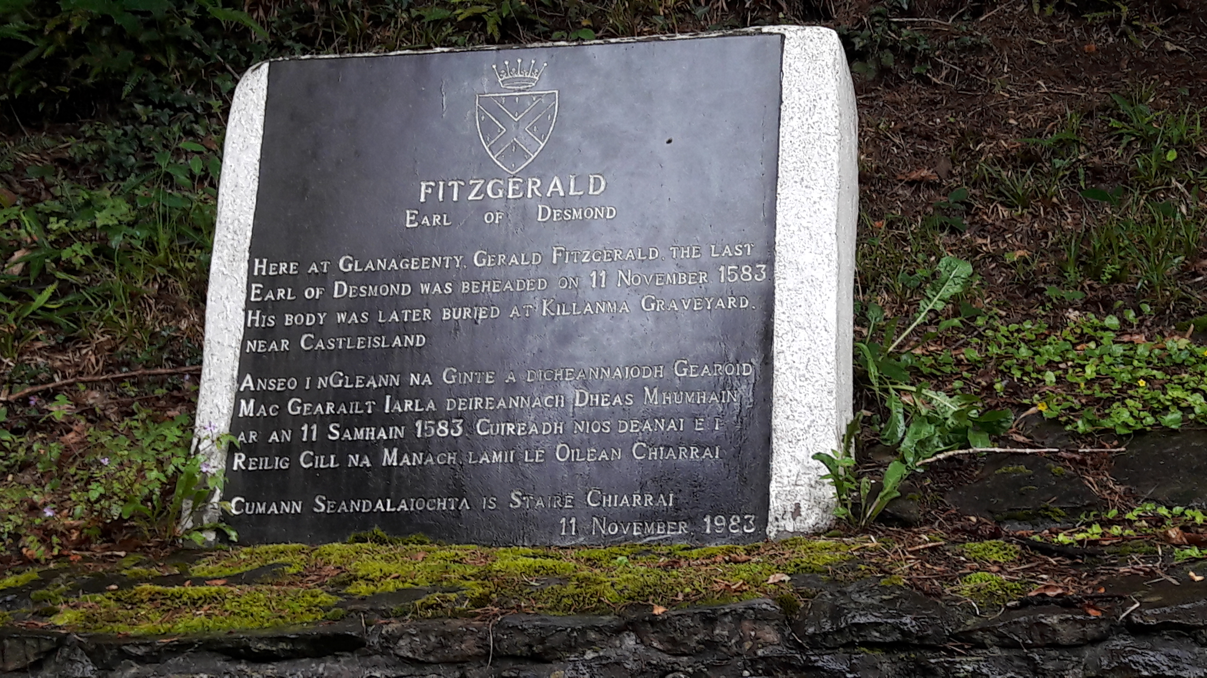 Monument commemorating the murder of Gerald Fitzgerald, Last Earl of Desmond, in 1583